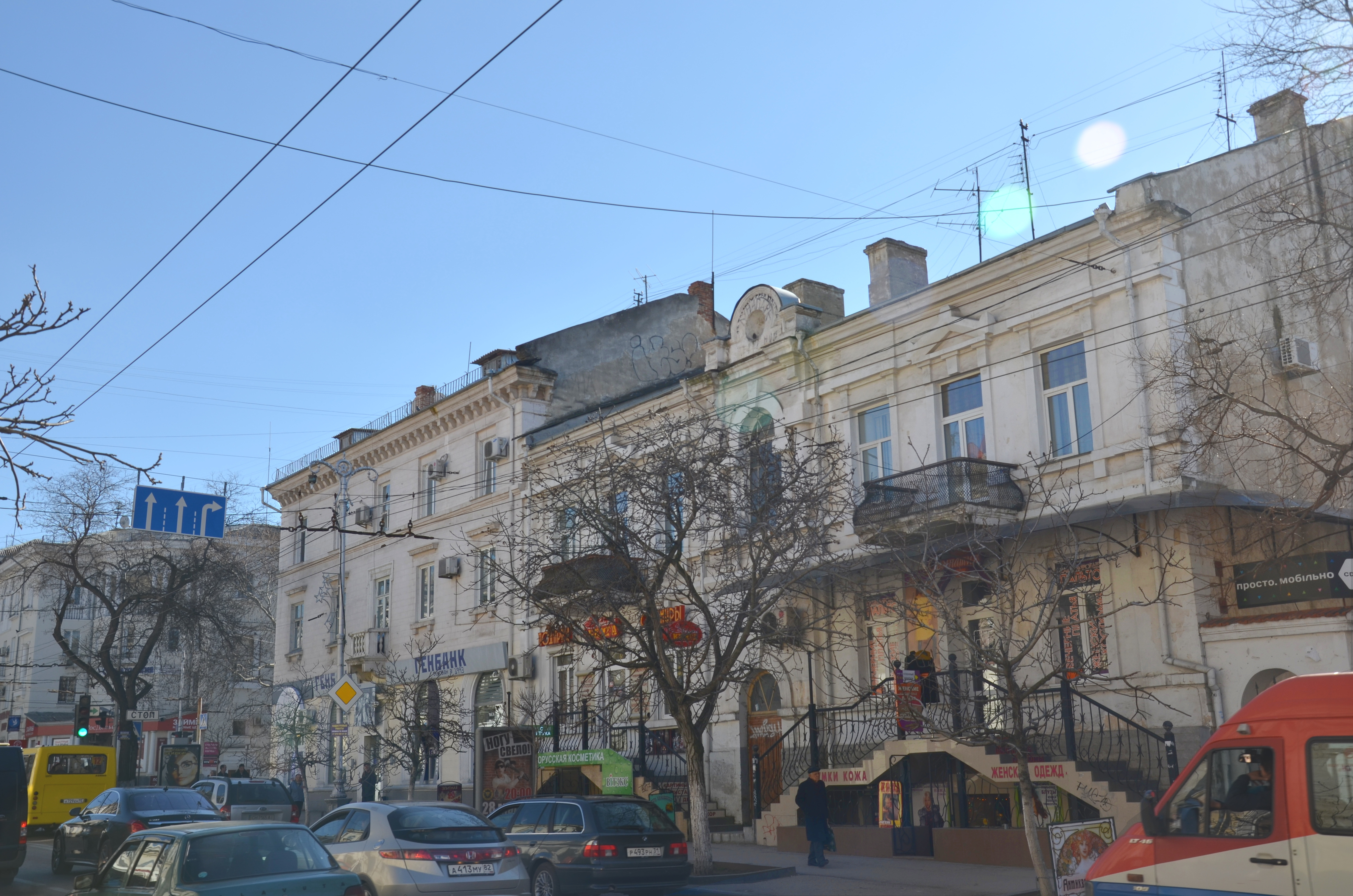 Houses from different period, Simferopol, Sevastopol